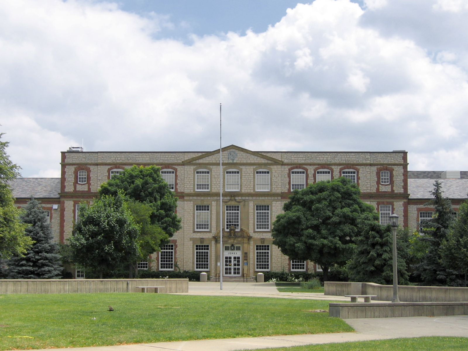 Front of Jones Middle School, Upper Arlington, Ohio, facing Arlington Avenue. Architect Howard Dwight Smith. Building completed 1924.